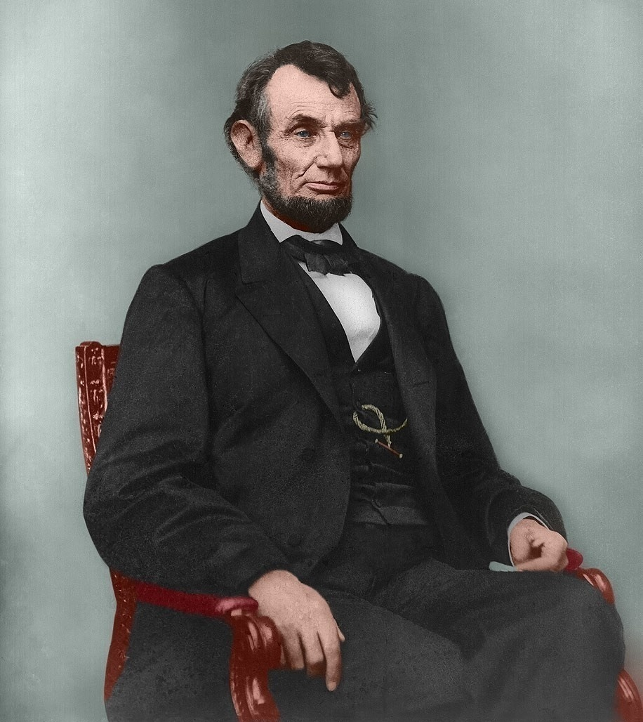 "Abraham Lincoln seated", recoloured